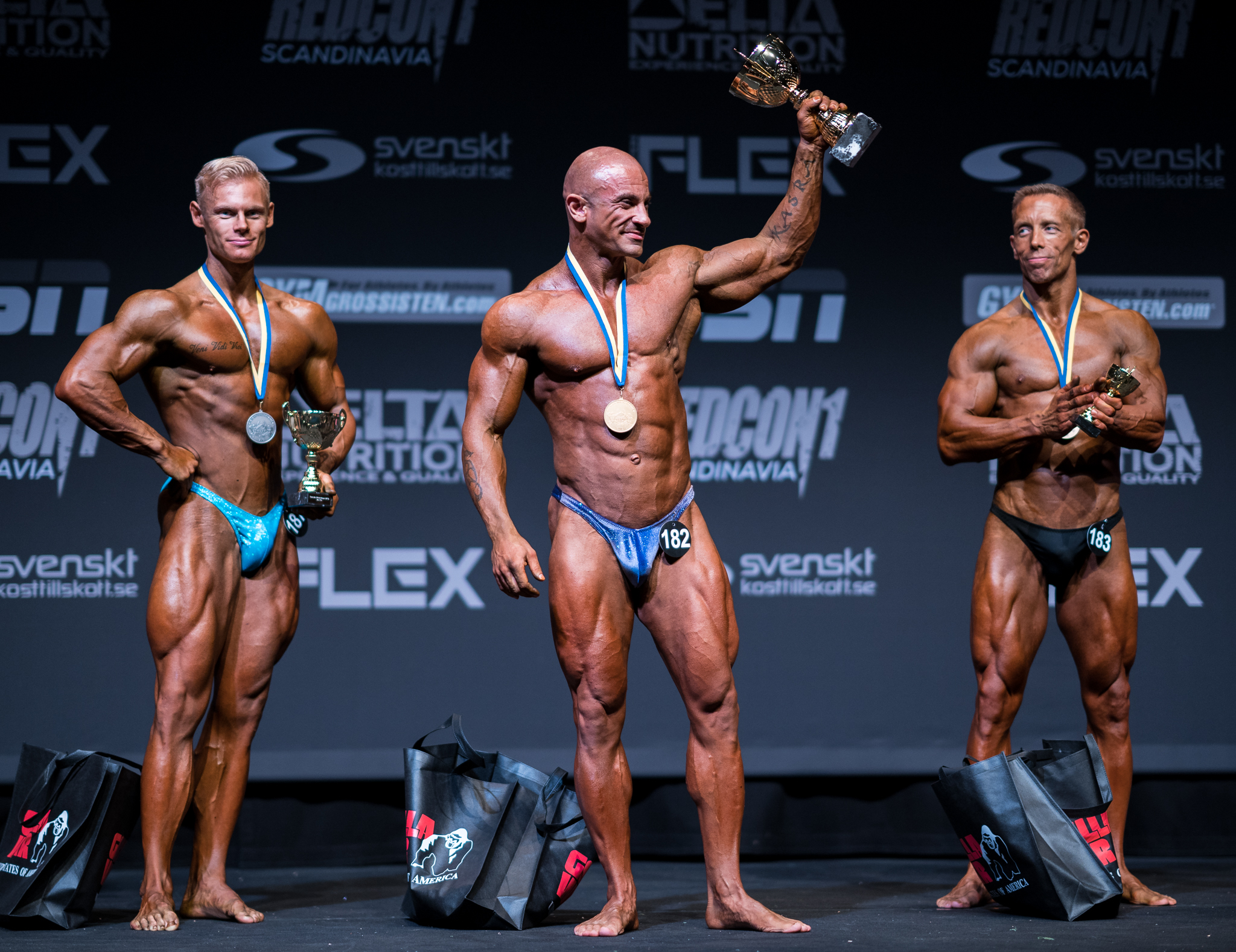 1: Patrik Kasra 182 2: Anton Eurenius 187 3: Roger Lineau 183